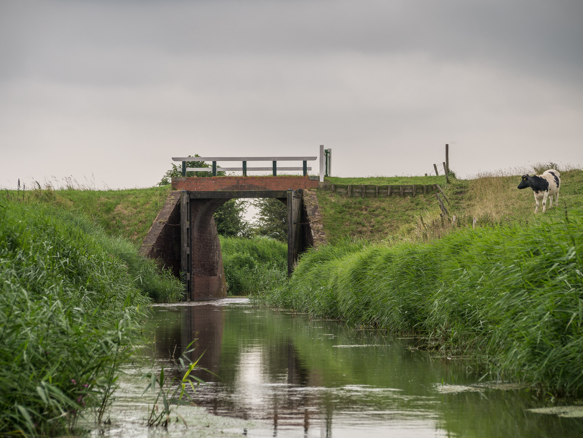 Water barrier "De Klief' in an old sea dike